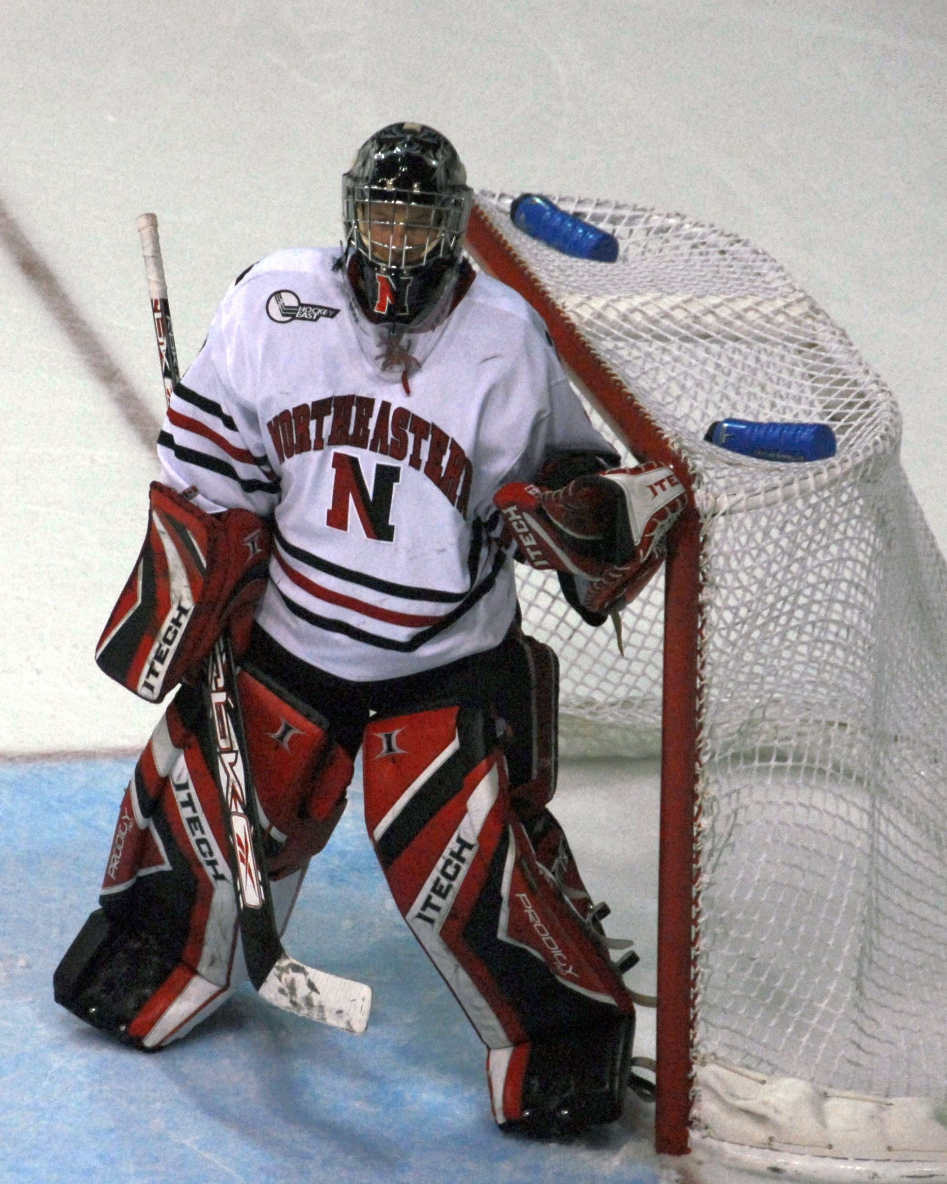 Brad Thiessen of the Northeastern Huskies tends the goal against the Providence Friars at Matthews Arena in Boston, Massachusetts, on October 19, 2007.